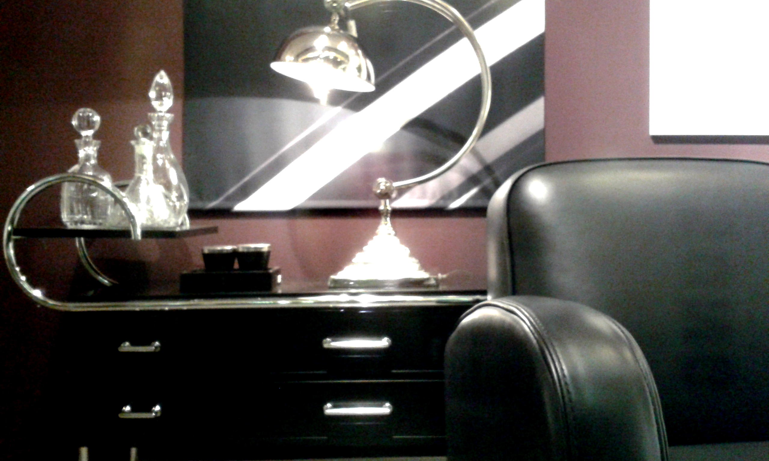 Pauli E. Blomstedt, Art Deco furniture